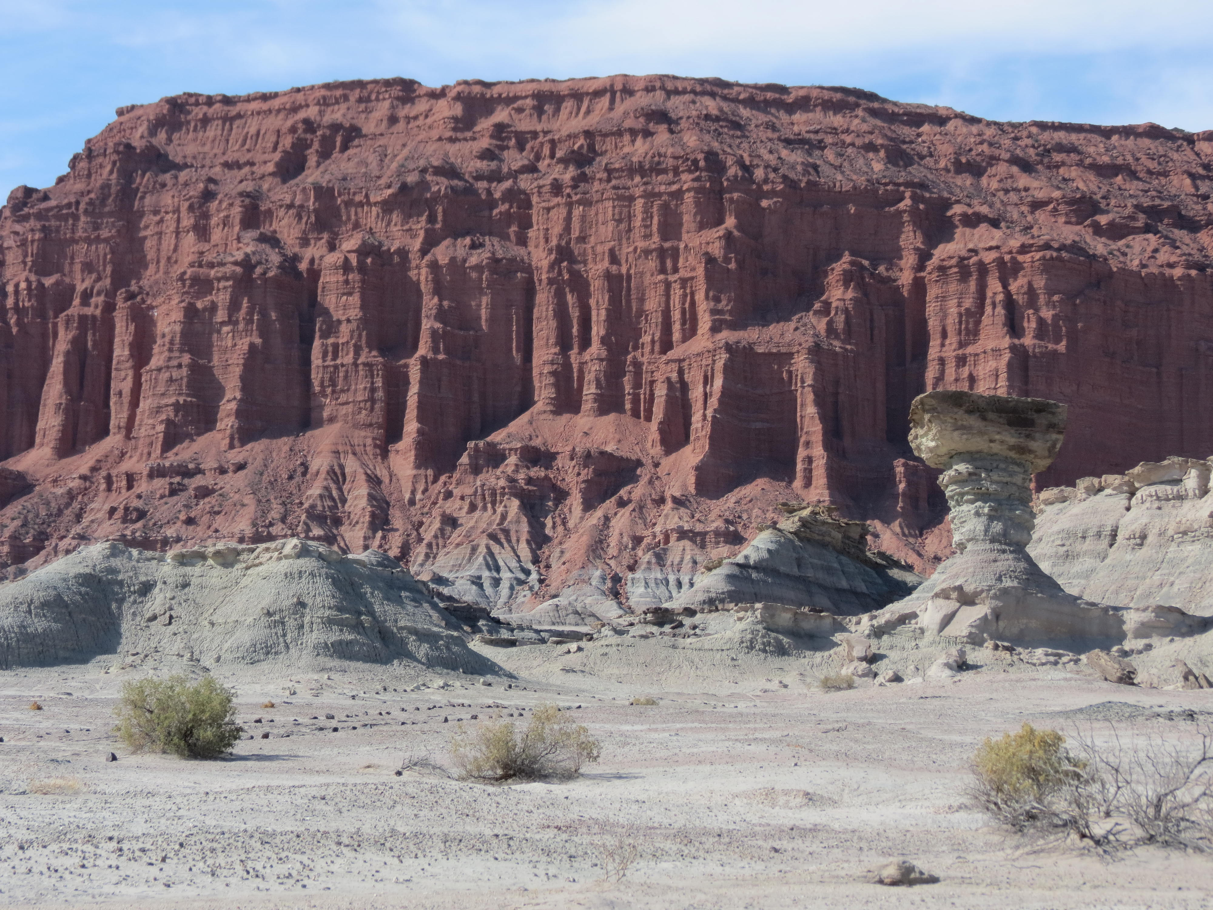 La imagen muestra una escena clásica del Parque Provincial Ischigualasto, que a pesar de estar muy fotografiada nunca se percibe lo mismo.